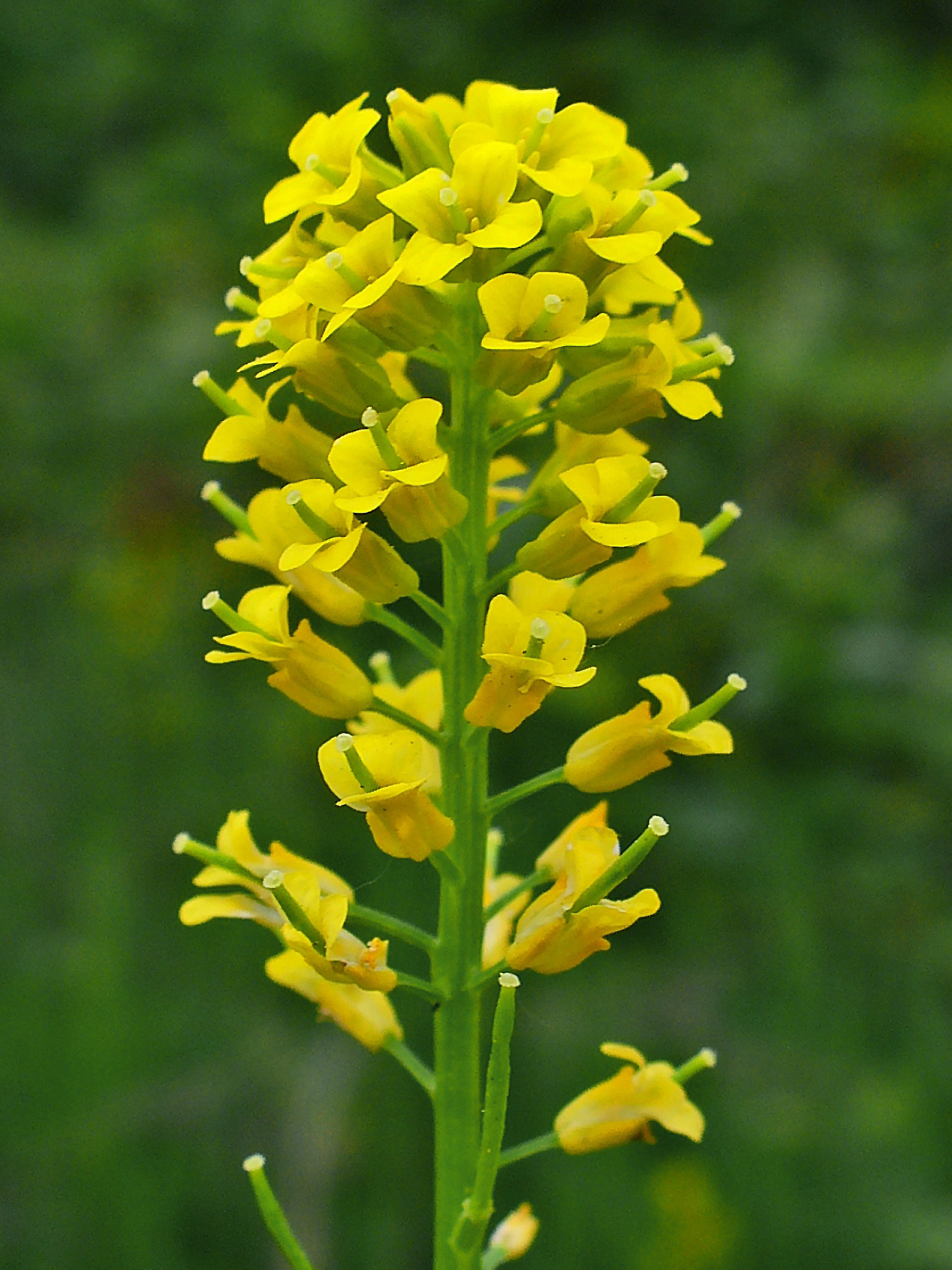 Barbarea vulgaris, Brassicaceae, Bittercress, Herb Barbara, Rocketcress, Yellow Rocketcress, Winter Rocket, Wound Rocket, inflorescence; Karlsruhe, Germany.